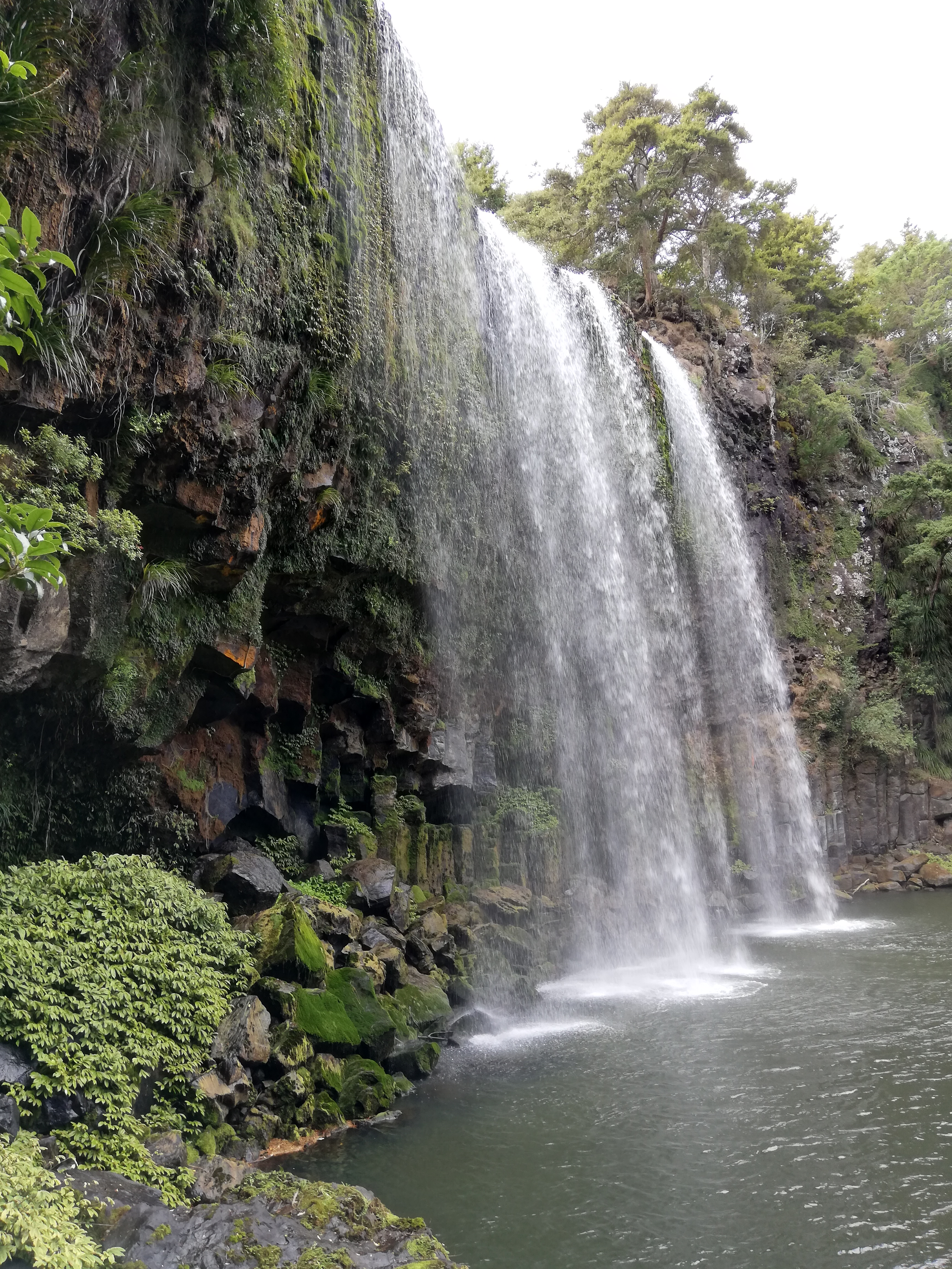 Whangarei Falls